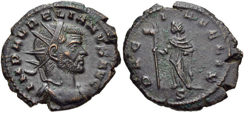 Aurelian. AD 270-275. Antoninianus (20mm, 4.29 g, 5h). Mediolanum (Milan) mint, 2nd officina. 1st emission, December AD 270-January 271. IMP AVR E LIANVS AVG, radiate and cuirassed bust right DAC-IA FELIX, Dacia standing facing, head left, holding staff surmounted by ass’s head (or draco's head?) and drapery; in exergue "S". RIC V 108; BN 362 (same obv. die); Venèra 1557.